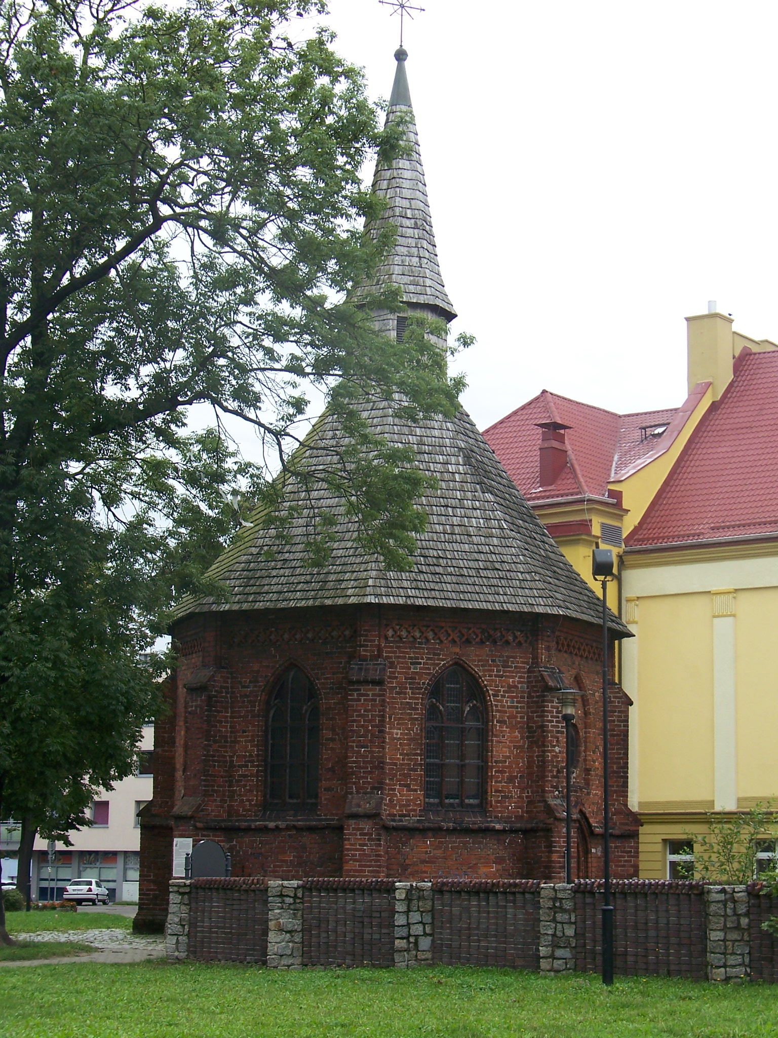 Chapel of St.Gertruda in Koszalin, Poland